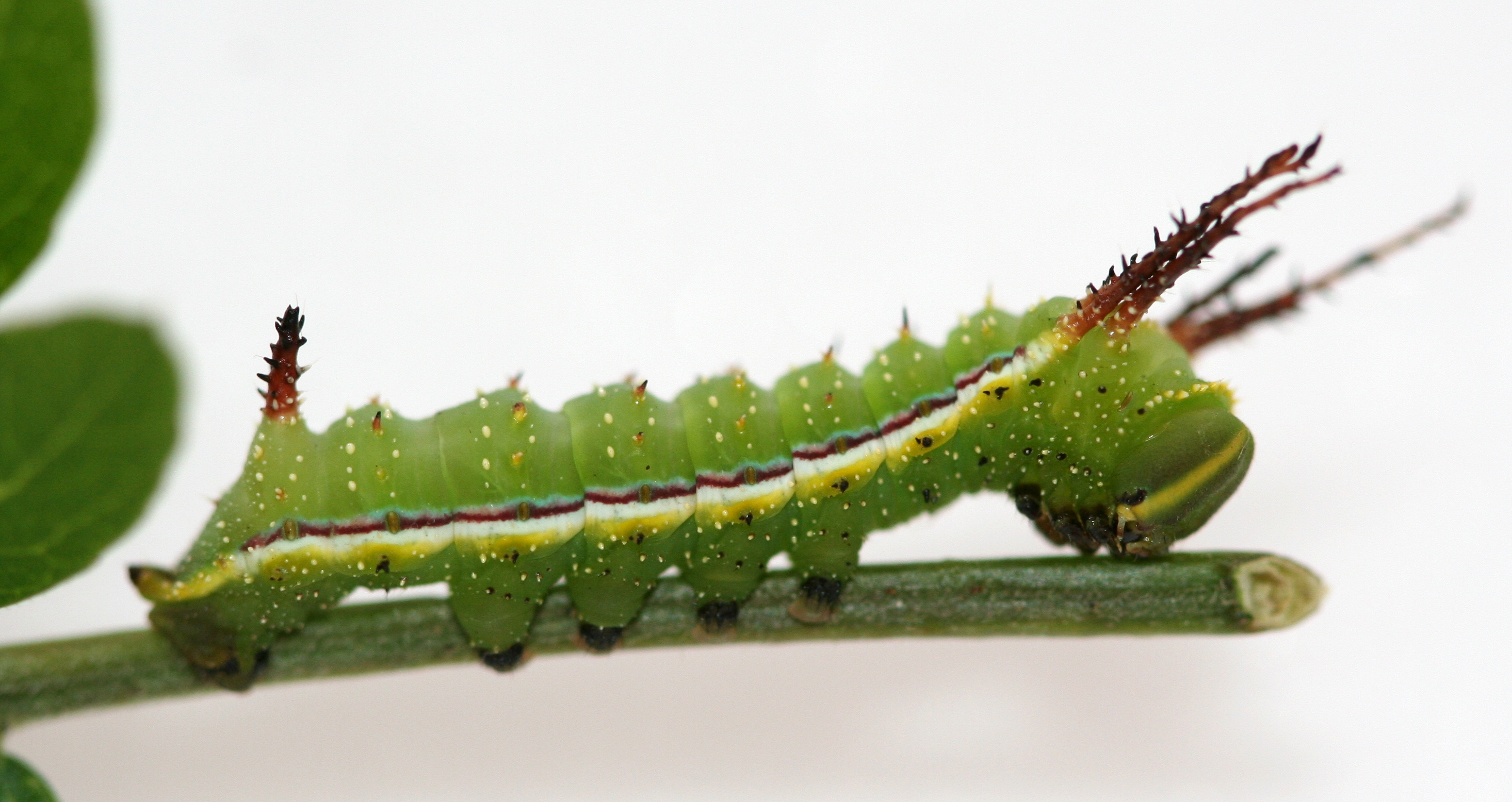 Honey Locust Moth larva (Sphingicampa bicolor)